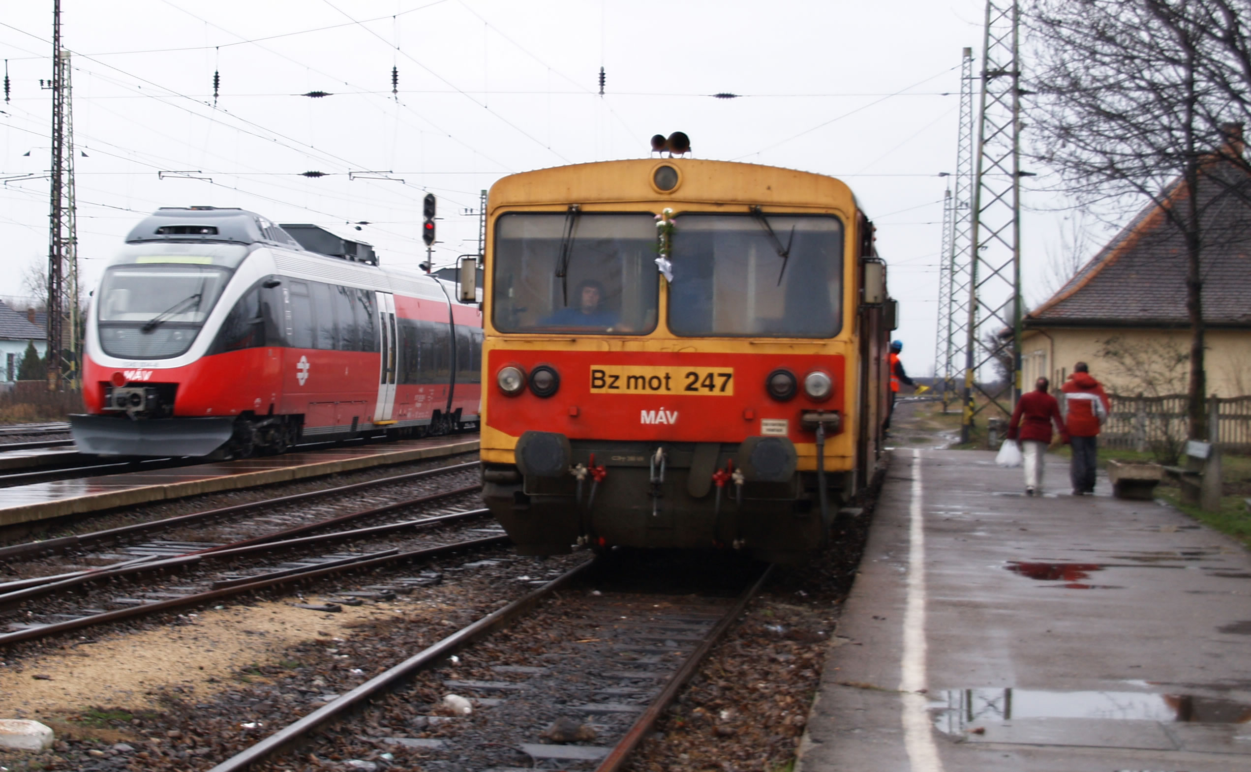 Last day of the Kisterenye–Kál-Kápolna railway line; shunt in Kál; Hungary